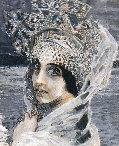 Fragment of a painting The Swan Princess by Mikhail Aleksandrovich Vrubel